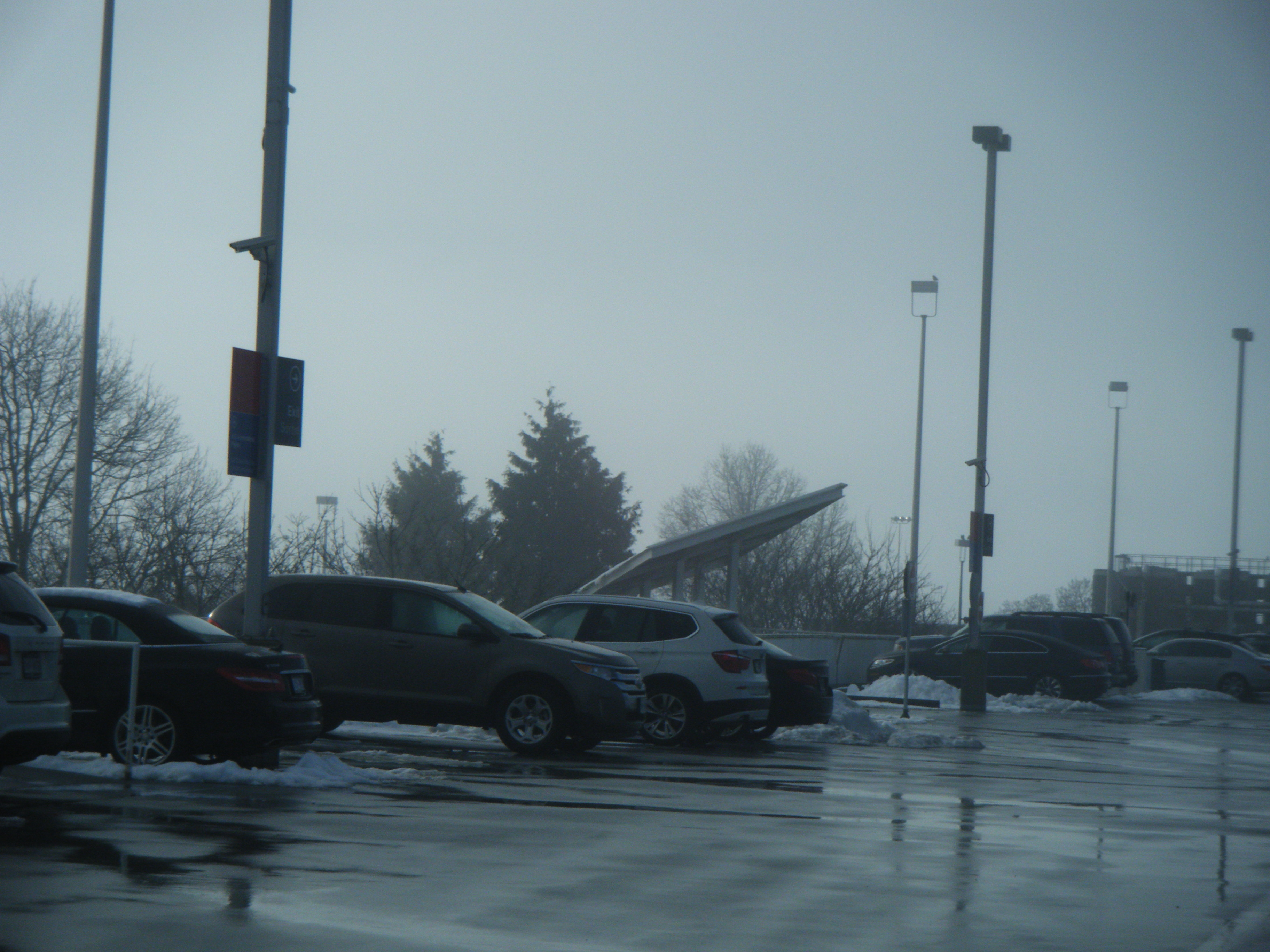 Solar panel at YVR by level 3 parking